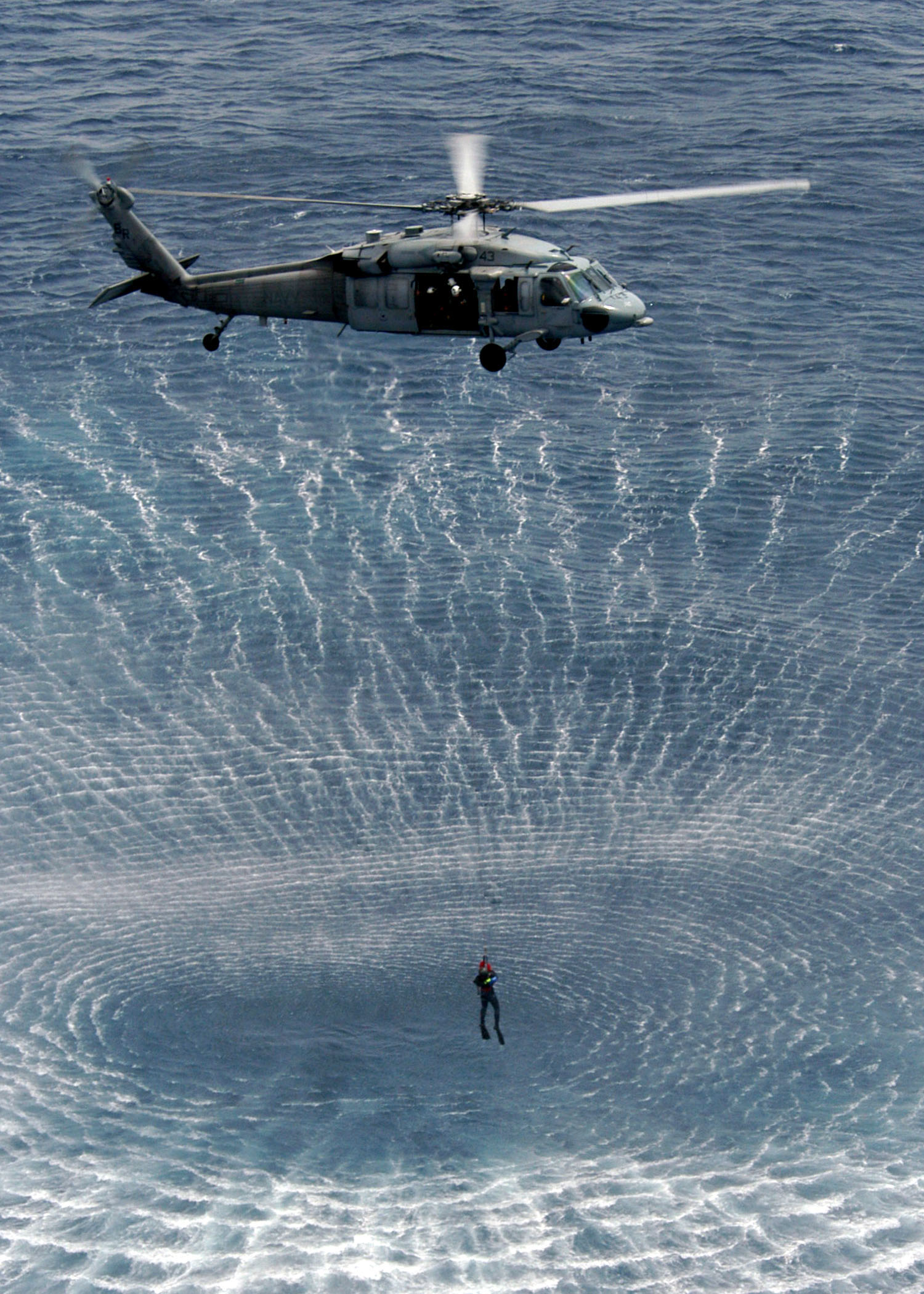 Mediterranean Sea (April 19, 2005) - Search and Rescue (SAR) swimmers attached to the Kearsarge Expeditionary Strike Group conduct search and rescue training during routine helicopter operations. The amphibious assault ship USS Kearsarge (LHD 3) and the 26th Marine Expeditionary Unit (MEU) are on a scheduled deployment in support of the global war on terrorism. U.S. Navy photo by Photographer's Mate Airman Sarah E. Ard (RELEASED)